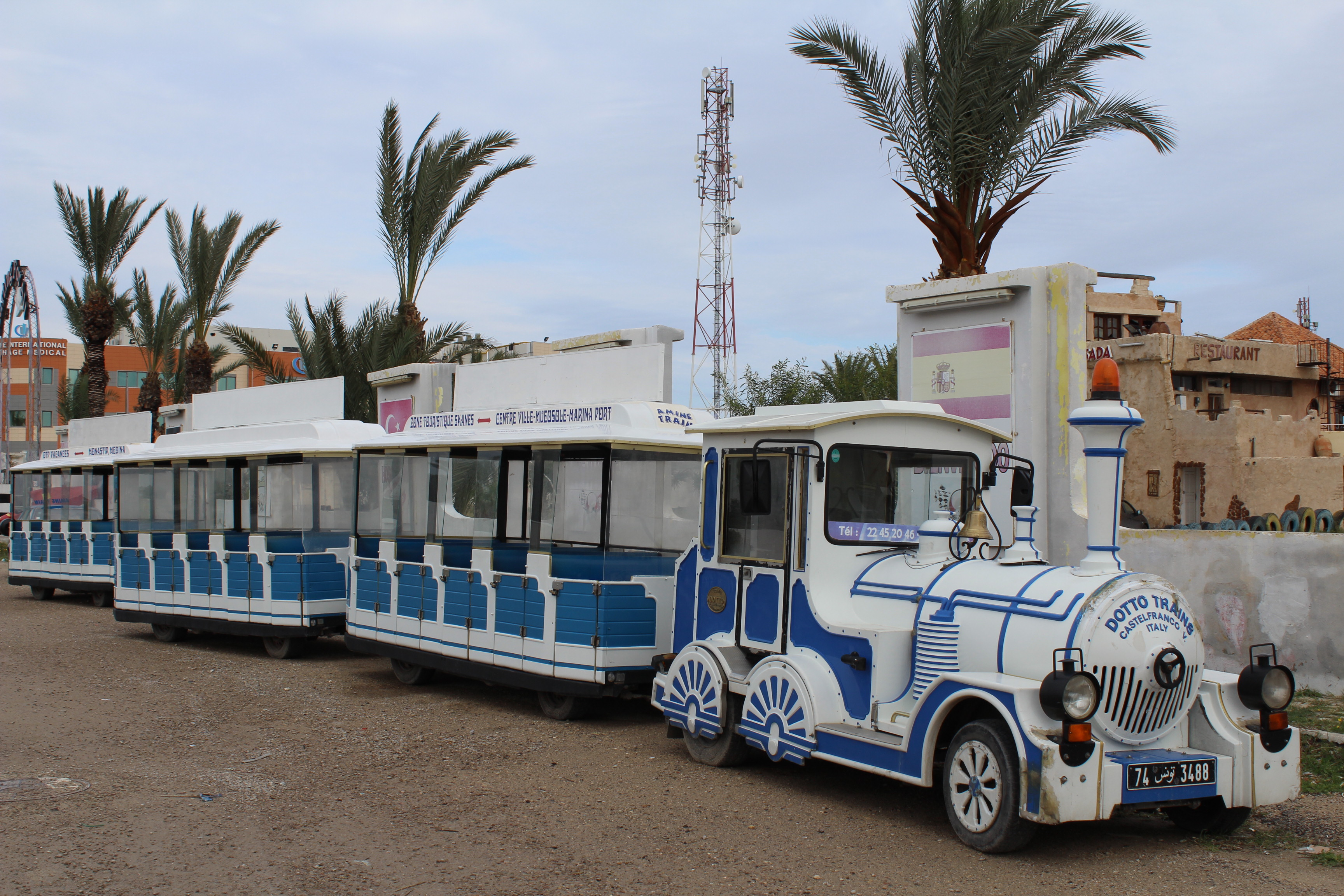 Touristic Train Monastir